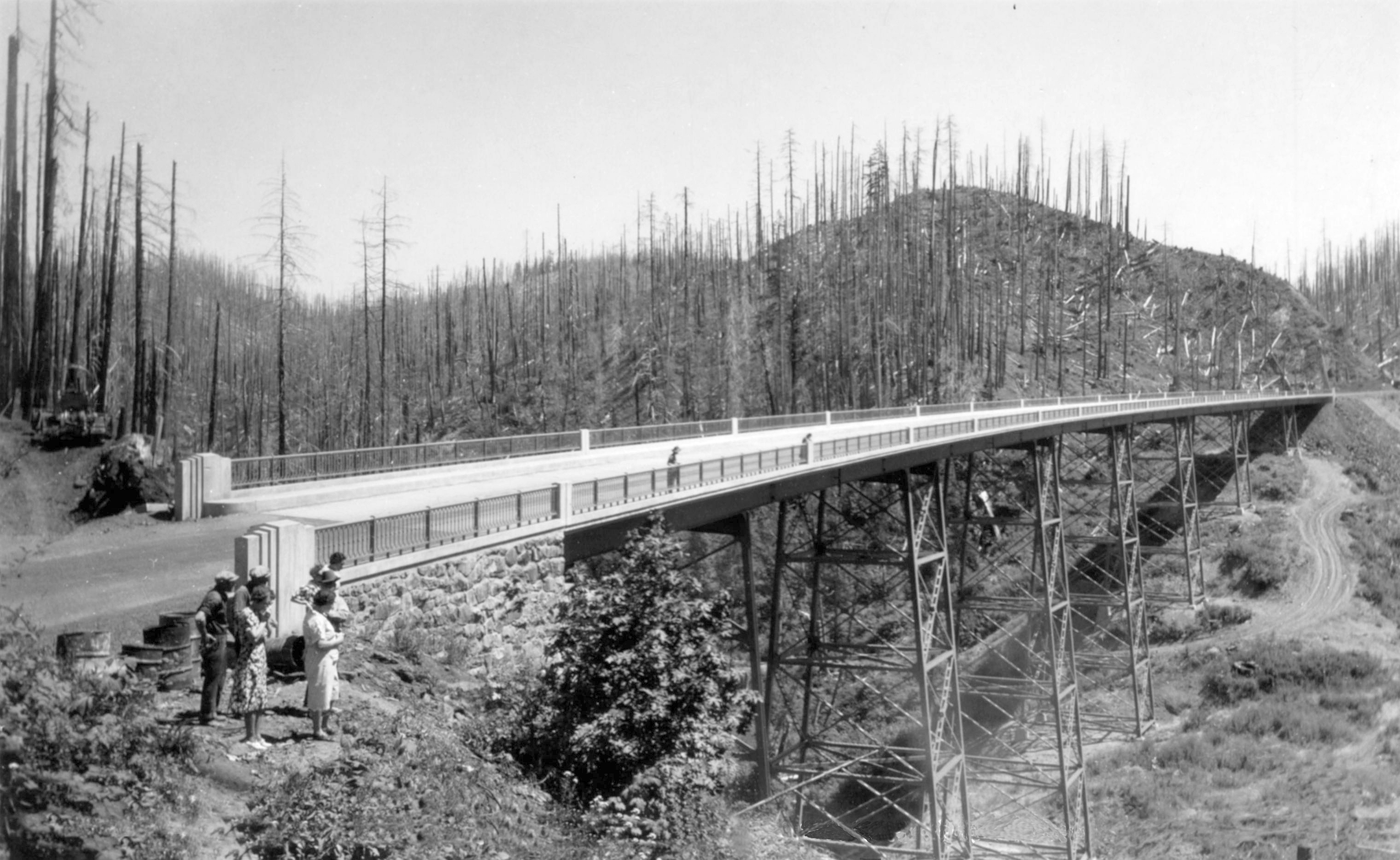 Quartz Creek Bridge, Clatsop County, Oregon, completed in 1939. Original Collection: Gerald W. Williams Collection, 1855-2007 Item Number: WilliamsG: WVquartzcreekbridge You can find this image by searching for the item number by clicking here. Want more? You can find more digital resources online. We're happy for you to share this digital image within the spirit of The Commons; however, certain restrictions on high quality reproductions of the original physical version may apply. To read more about what “no known restrictions” means, please visit the Special Collections & Archives website, or contact staff at the OSU Special Collections & Archives Research Center for details.